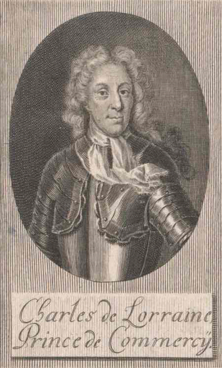 Portrait of Charles François de Lorraine, prince de Commercy (* 11. Juli 1661; † 15. August 1702), imperial Field Marshal, from Paul Rycaut: Der neu-eröffneten Ottomanischen Pforten Fortsetzung, Augsburg 1700.